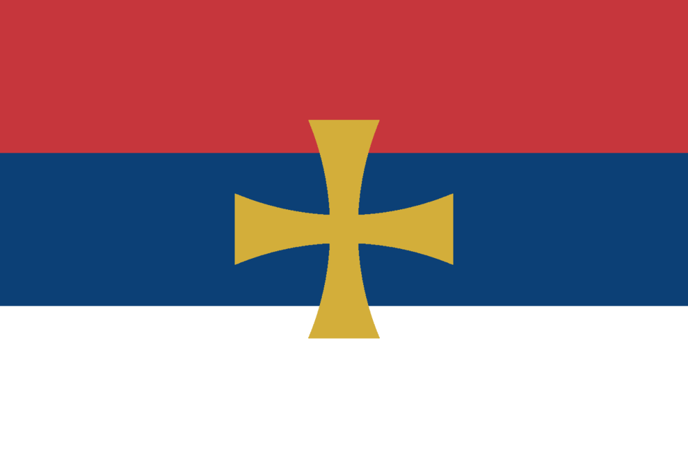 Serb-Montenegrin minority flag, according to Serb National Council of Montenegro (2008) and Moraça-Rozafa, the minority organization representing the minority in Albania.